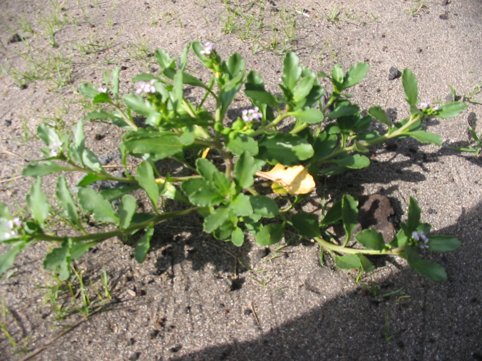 American sea rocket (Cakile edentula) - Habitus